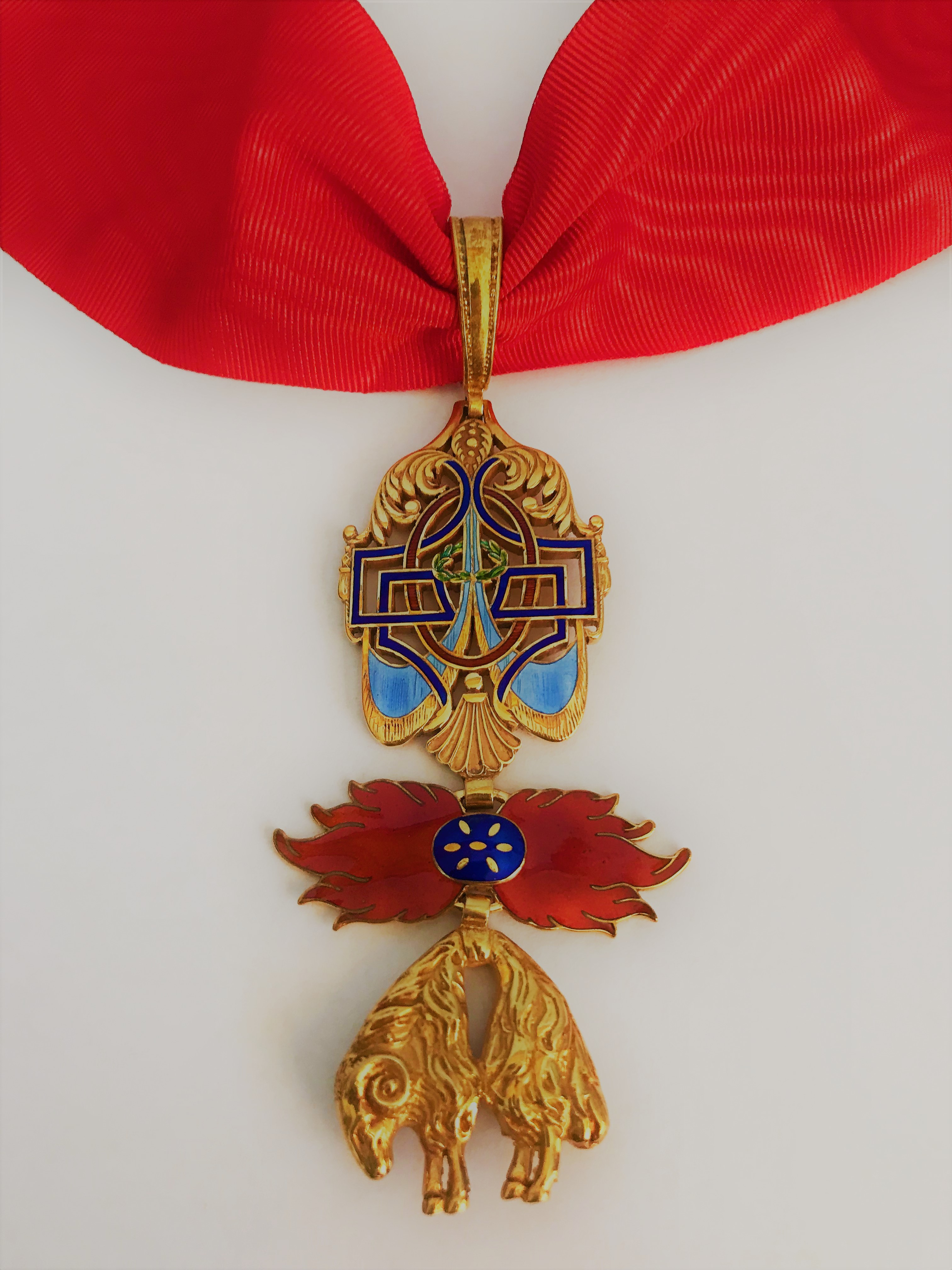 Insignia of a Knight of the Order of the Golden Fleece of Spain. Modern manufacture, Cejalvo (Madrid).